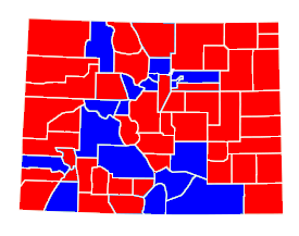 The county map results of the 2002 senate election in Colorado